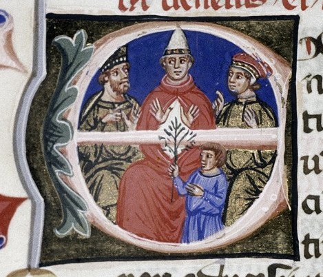 initial E with Pope Alexander III seated in centre; Emperor Frederick "Barbarossa" and his wife on either side